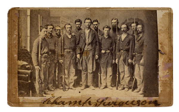 Champ Ferguson surrounded by Union soliders in 1865.